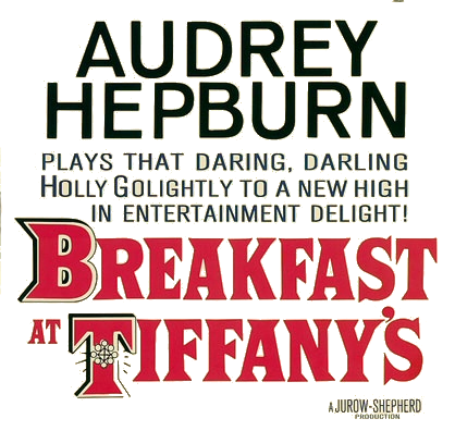 Official logo of the movie Breakfast at Tiffany's